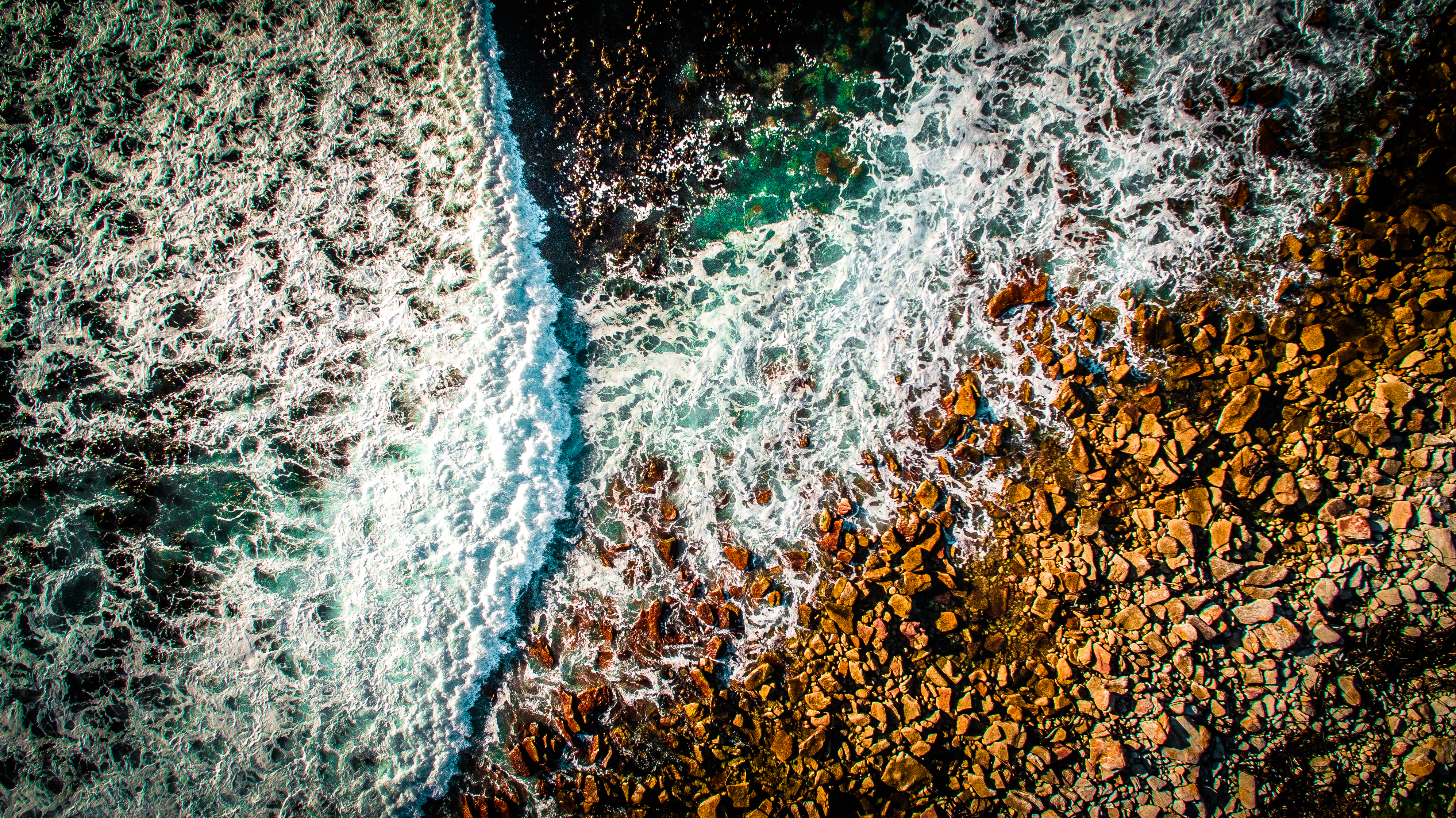 A single wave breaking on the rocky beach of Kommetjie, a small but beautiful town near Cape Town.